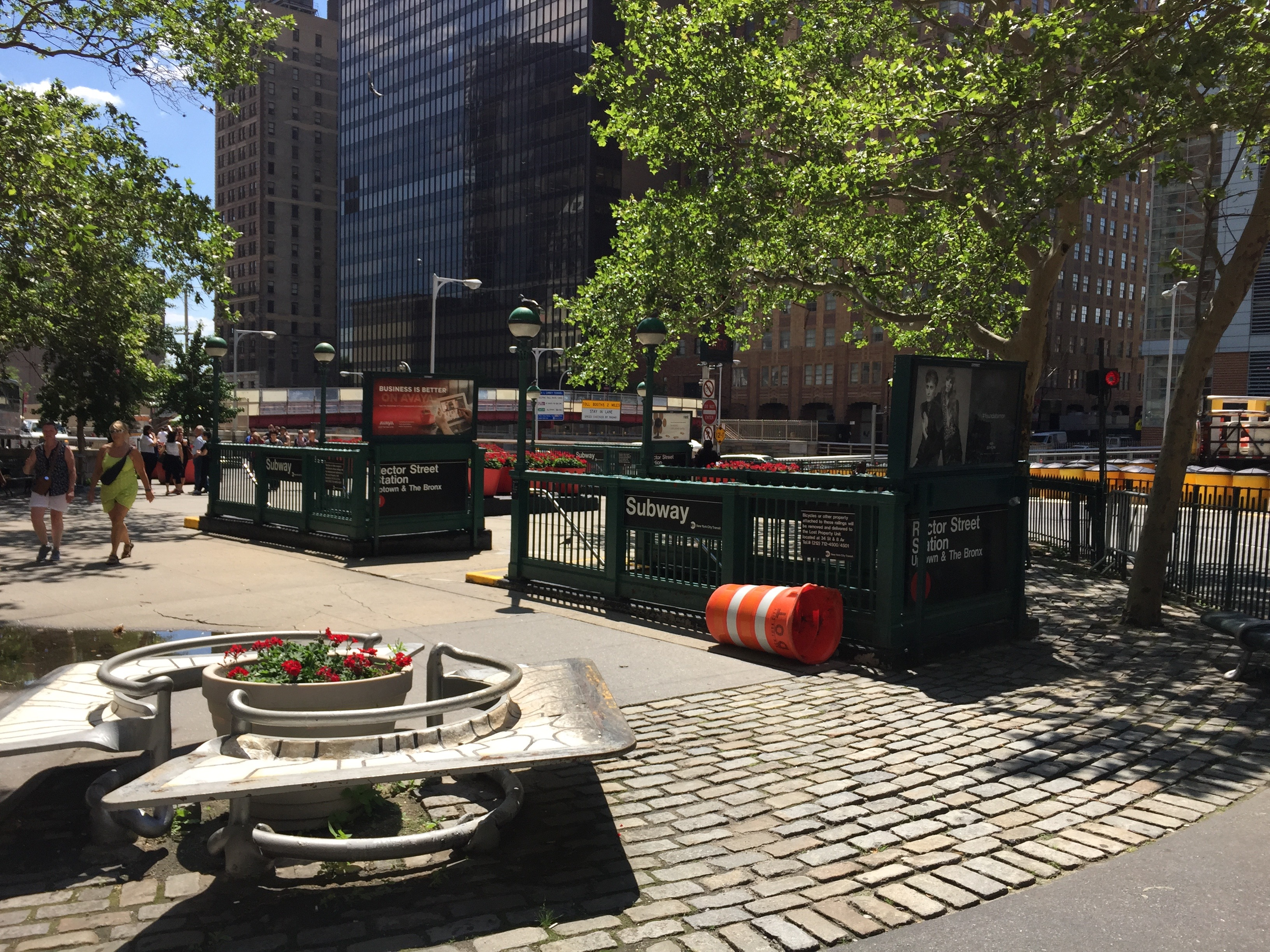 Stairs at the plaza near Edgar Street/Greenwich Street and the Brooklyn Battery Tunnel to the uptown 1 platform at Rector Street